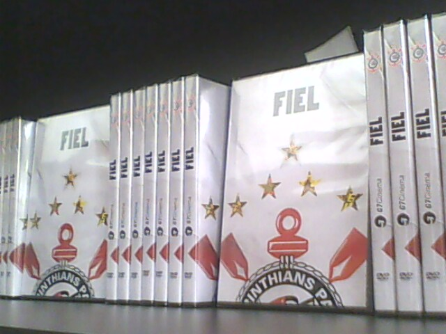 DVD's of the feature film "Fiel"